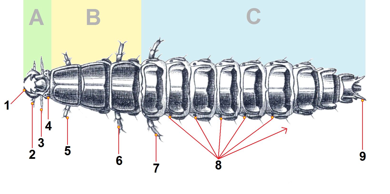 See image for index to numbers. # Carabus clathratus L. = Carabus clathratus Linnaeus, 1758 (1a: mouthparts of larva, partial ventral view, 1b: adult, dorsal view, 1c: elytra pattern) # [Carabus] granulatus L. = Carabus granulatus granulatus Linnaeus, 1758 (2a: mouthparts of larva, partial ventral view, 2b: adult, dorsal view, 2c: elytra pattern) # [Carabus] granulatus var. interstitialis Dftschm. = Carabus granulatus interstitialis Duftschmid, 1812 (3a: adult, dorsal view, 3b: elytra pattern) # [Carabus] cancellatus Illig. = Carabus cancellatus cancellatus Illiger, 1798 (4a: larva, dorsal view, 4b: mouthparts of larva, partial ventral view, 4c: adult, dorsal view, 4d: elytra pattern) # [Carabus] cancellatus var. emarginatus Duftschm. = Carabus cancellatus emarginatus Duftschmid, 1812 (5a: adult, dorsal view, 5b: elytra pattern) # [Carabus] Ullrichi Germ. = Carabus ullrichii Germar, 1824 (6a: adult, dorsal view, 6b: elytra pattern) # [Carabus] catenatus Panz. = Carabus catenulatus Scopoli, 1763 (7a: adult, dorsal view, 7b: elytra pattern)